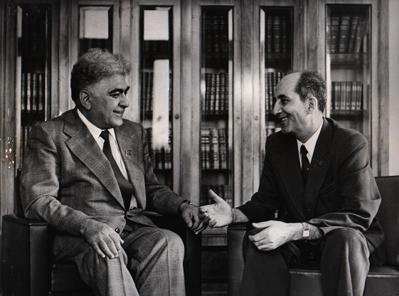 Babken Sarkisov and Talin deputy Mîroyê Esed Kurdî: Mîroyê Esed tevî sedrê Sedirtya Sovêta Ermenîstanêye Tewrebilind Babkên Sarkîsov